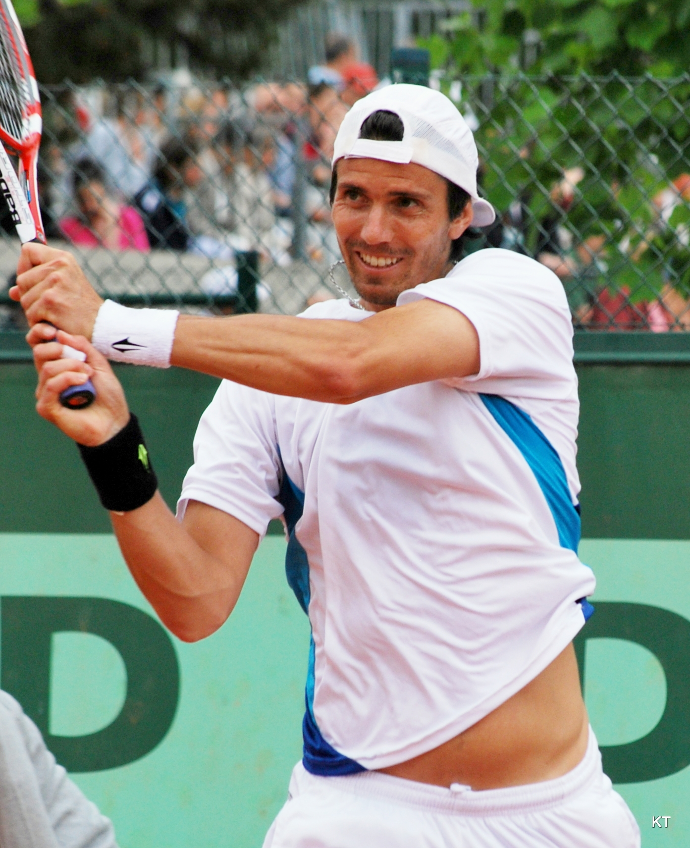 Juan Ignacio Chela during his 2nd round doubles match with Eduardo Schwank against Fyrstenberg & Matkowski. Day 6 of Roland Garros 2012.